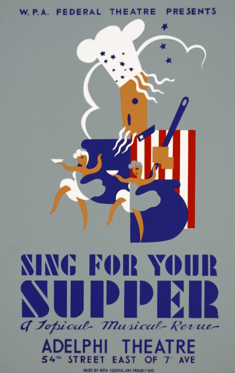 W.P.A. Federal Theatre presents "Sing for your supper", a topical musical revue. Poster by Aida McKenzie for Federal Theatre Project presentation of "Sing for Your Supper" at the Adelphi Theatre, 54th Street east of 7th Ave., New York City, showing a chef with two dancers.